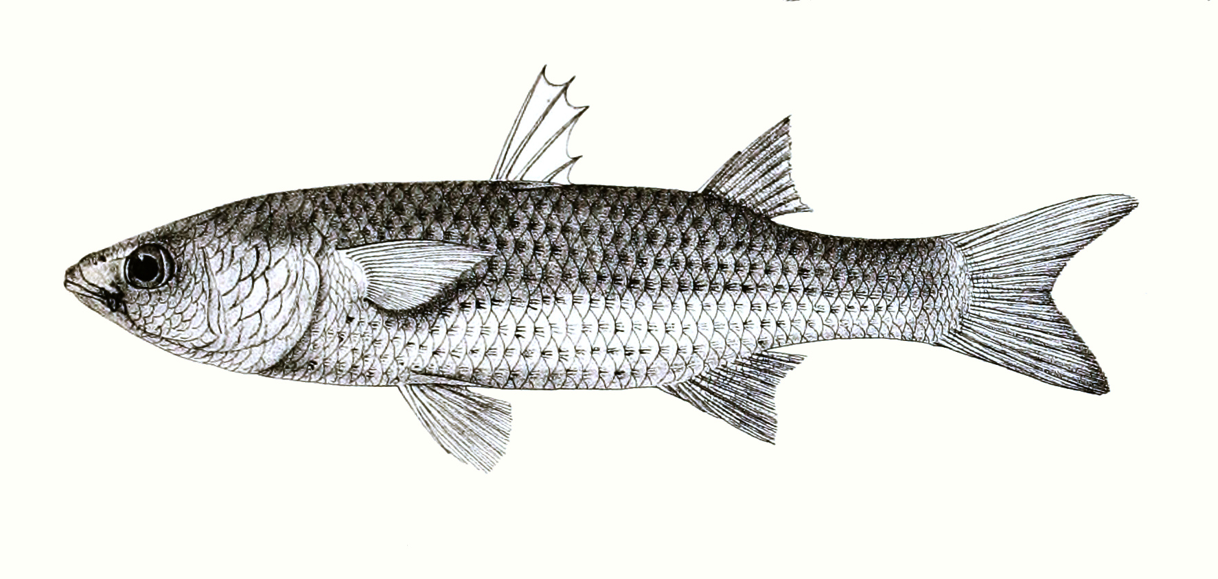 Liza carinata syn. Mugil carinatusThe species names / identity need verification. The original plates showed the fishes facing right and have been flipped here. Mugil carinatus